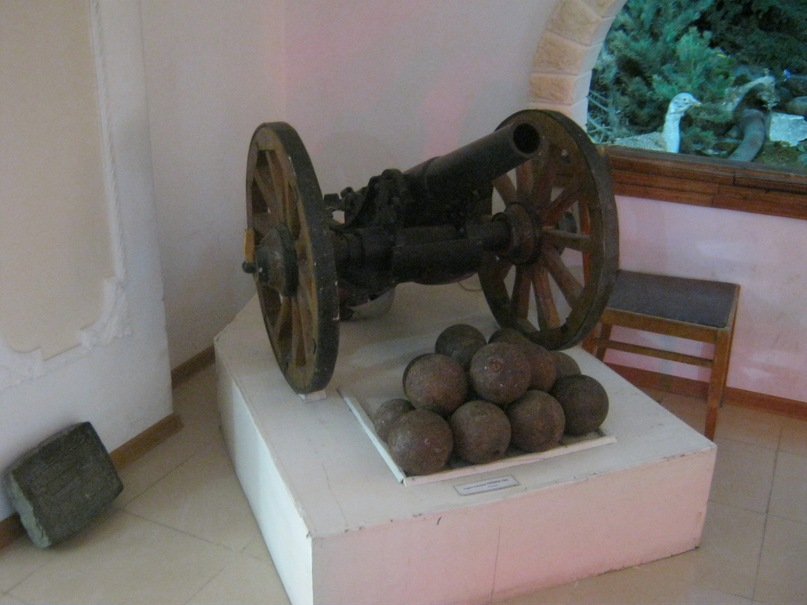 Tula artillery gun exhibit in the Museum of Local history, culture and geography in Akhty, Dagestan.